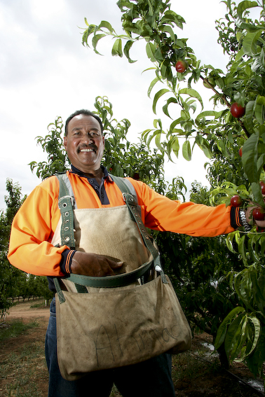 More than 2,000 workers from the Pacific and Timor-Leste have earned additional income as seasonal workers in Australia. AusAID is working with Australian businesses to identify areas of mutual interest, where government and business can work together to achieve effective and sustainable development.